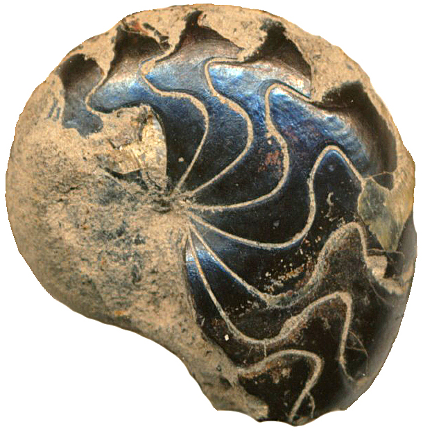 Genus Cheiloceras as a member of the palaeoammonoids (goniatitids) with a simple non-incised suture line (Devonian).